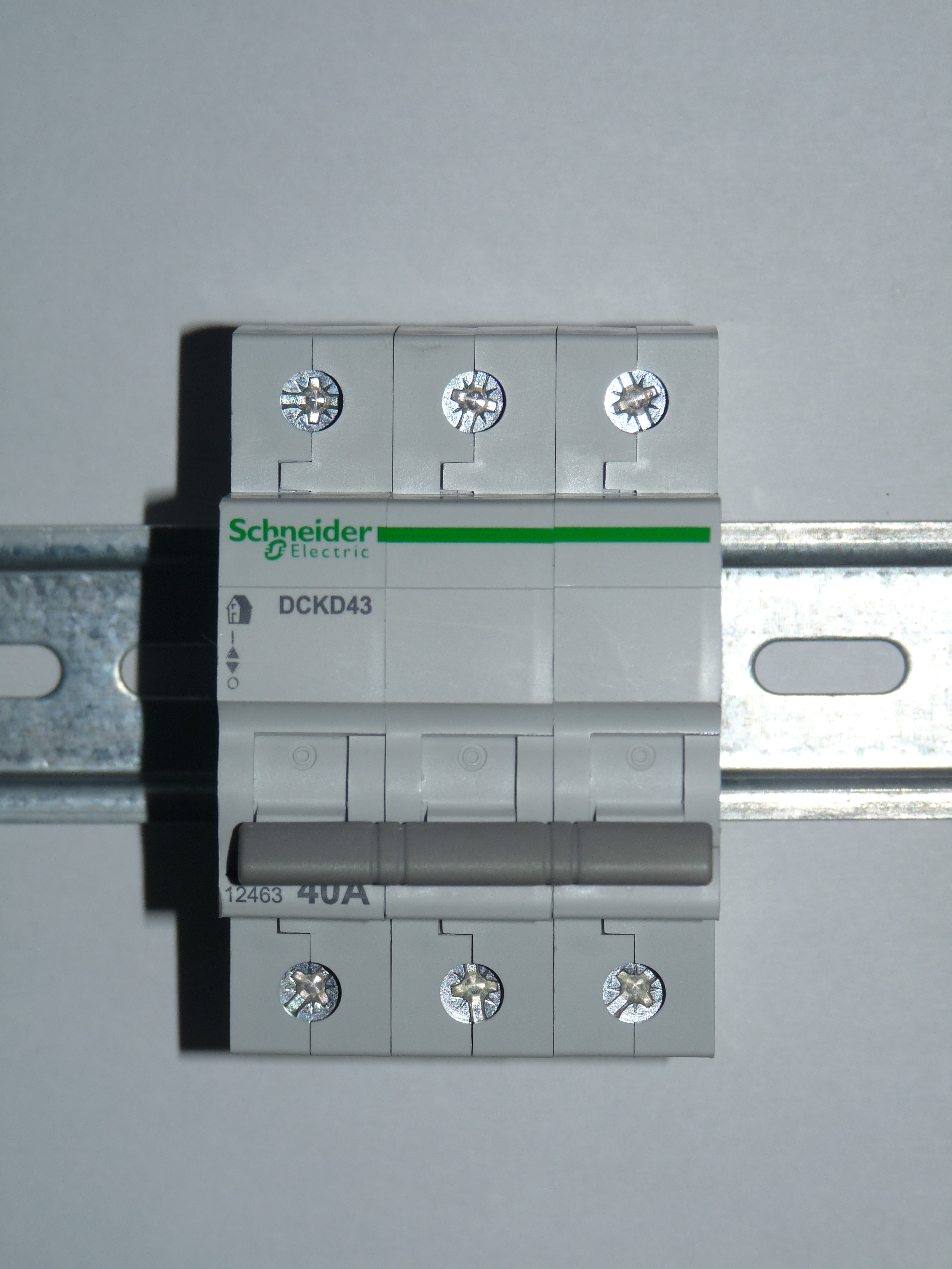 3-pole load switch DCKD43, 40 A 250/415 V.